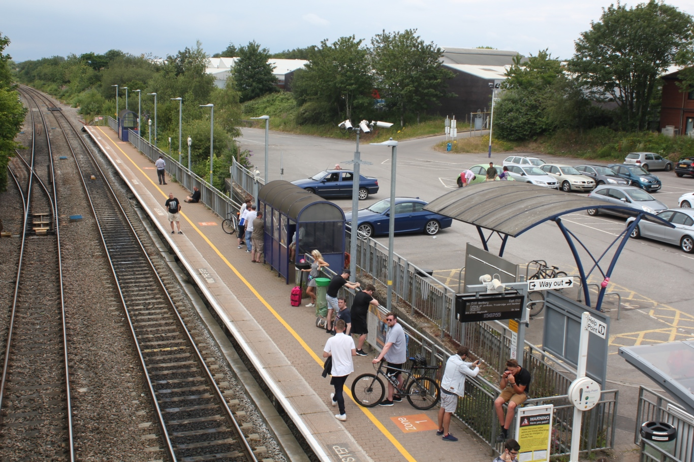 Yate station's platform 2 is used by trains going south towards Bristol and Weymouth.